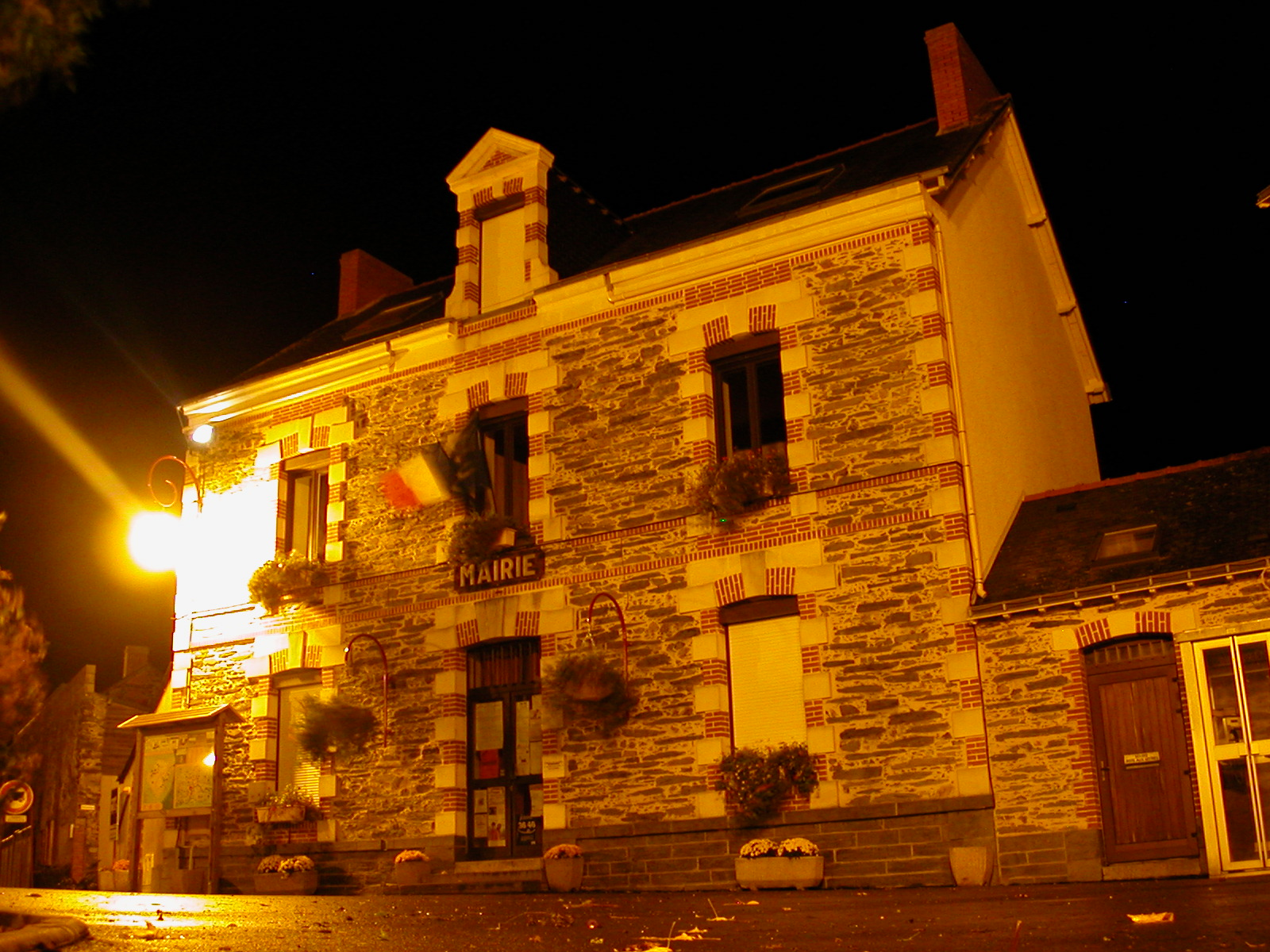 Town hall of Jans